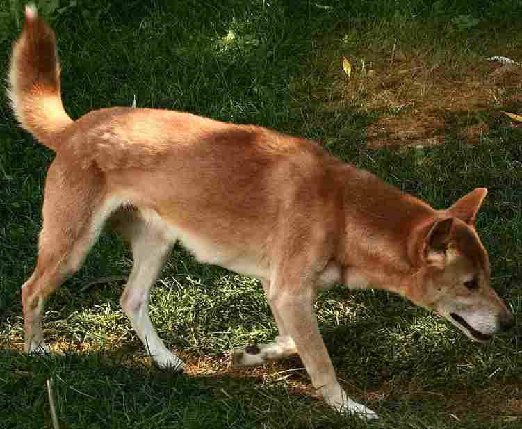 A New Guinea Singing Dog, walking on a trail. Crop of File:New Guinea Singing Dog on trail.jpg.